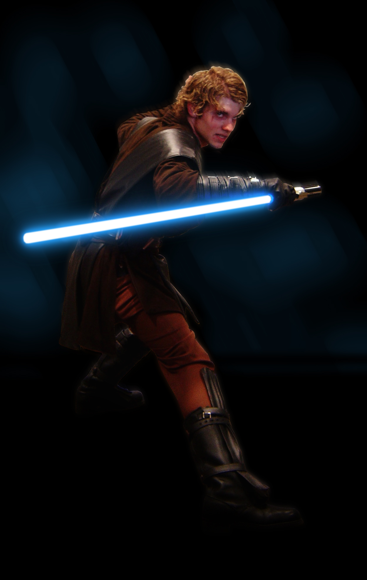 Anakin Skywalker costume (great resemblance)